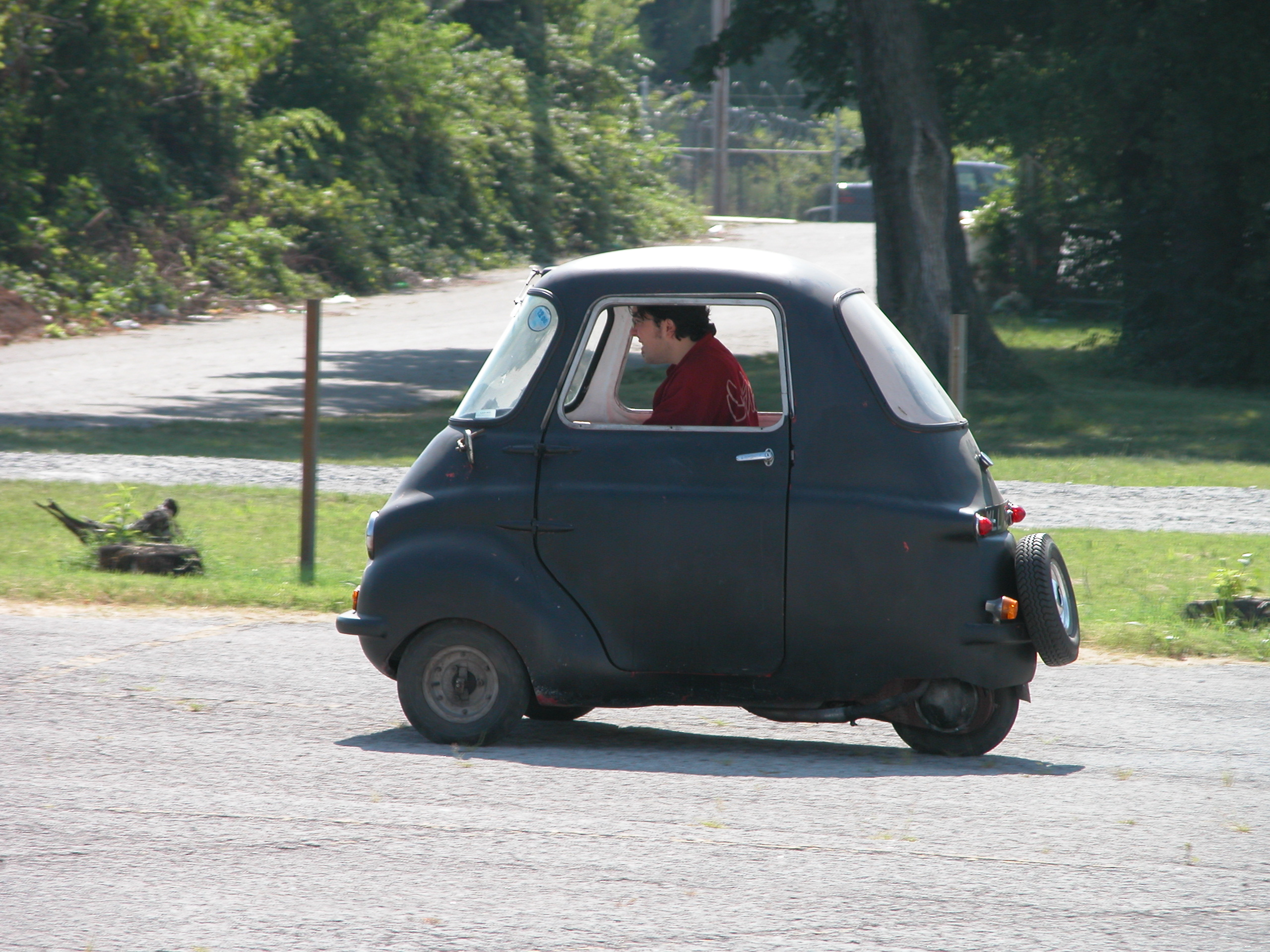 American Automobile Culture: Cars from the Lane Motor Museum A 1959 Scootacar being driven on the grounds of the Lane Motor Museum in Nashville, Tennessee (USA) The person in the picture is the uploader.